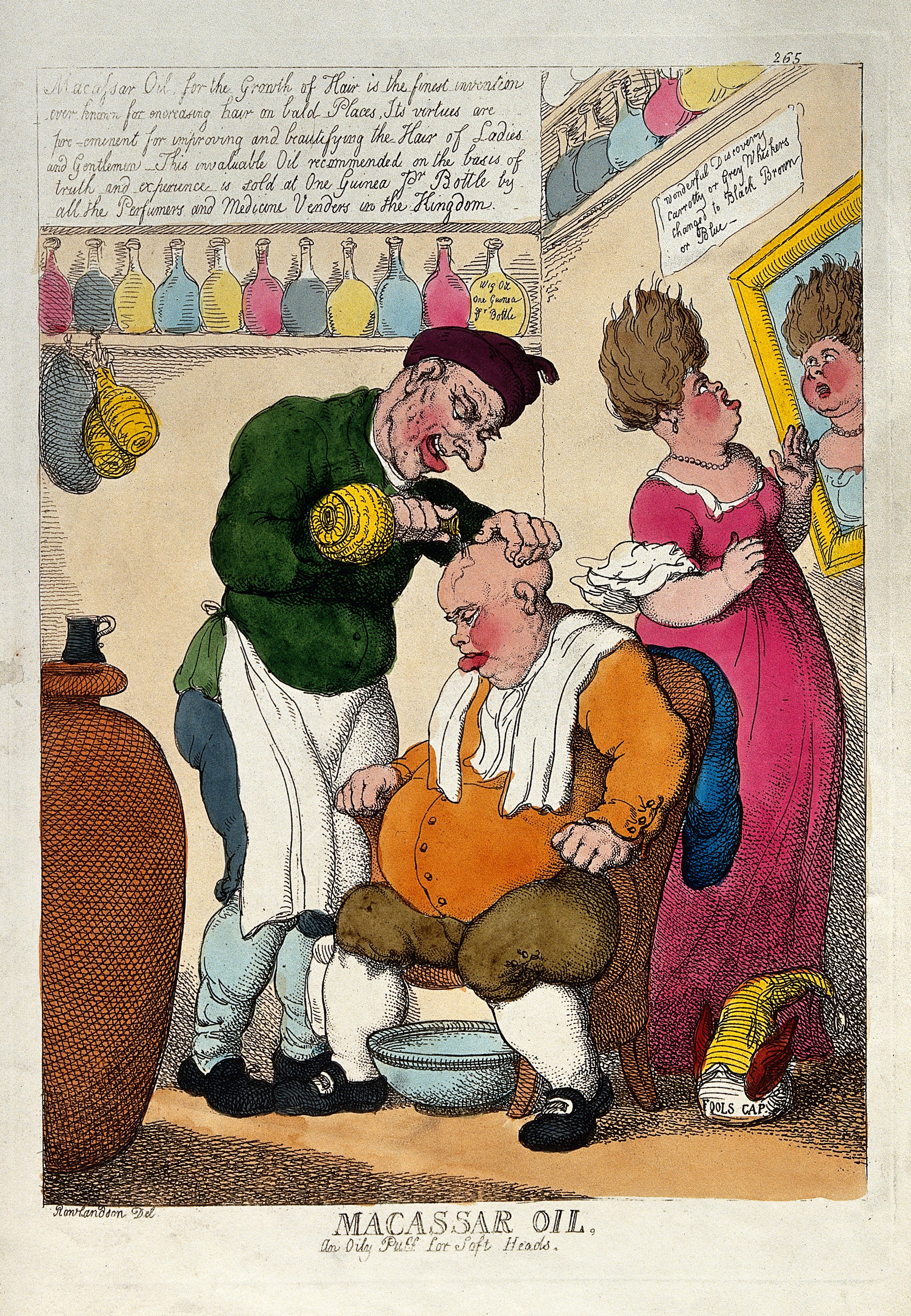 An obese bald-headed old man seated in an armchair while a shopman pours oil from a bottle on to his scalp, at his feet is a basin to receive the overflow, on the ground is a fool's cap with ears and behind them stands a woman with a shock of brown hair who looks in horror at her reflection in a wall-mirror. Etching after T. Rowlandson, c. 1814. Iconographic Collections Keywords: Thomas Rowlandson